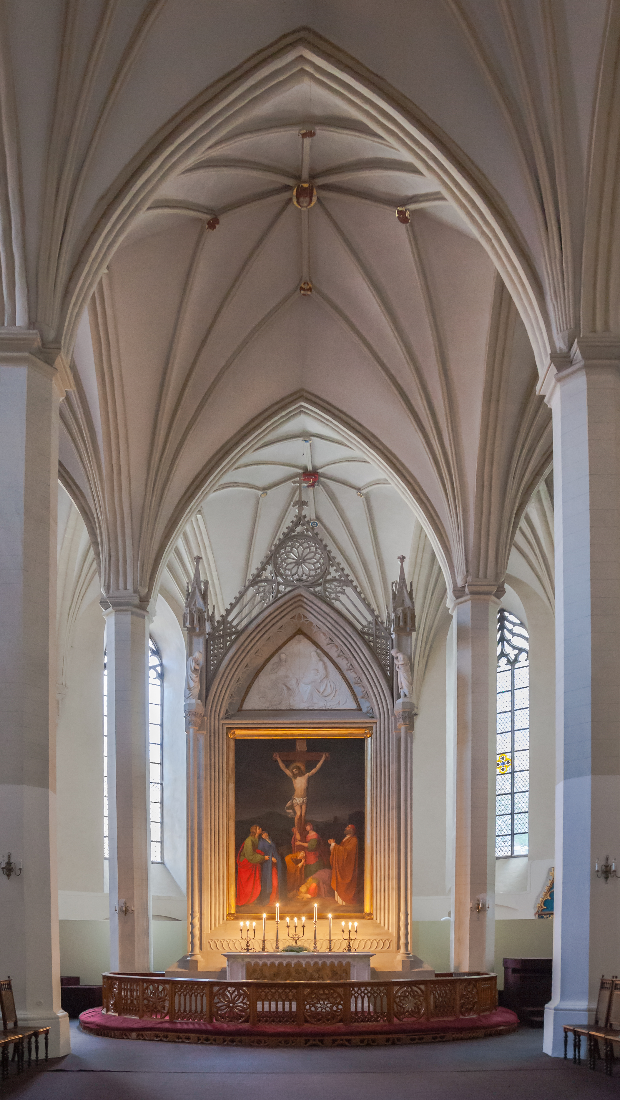 St Olaf's Church, Tallinn, Estonia